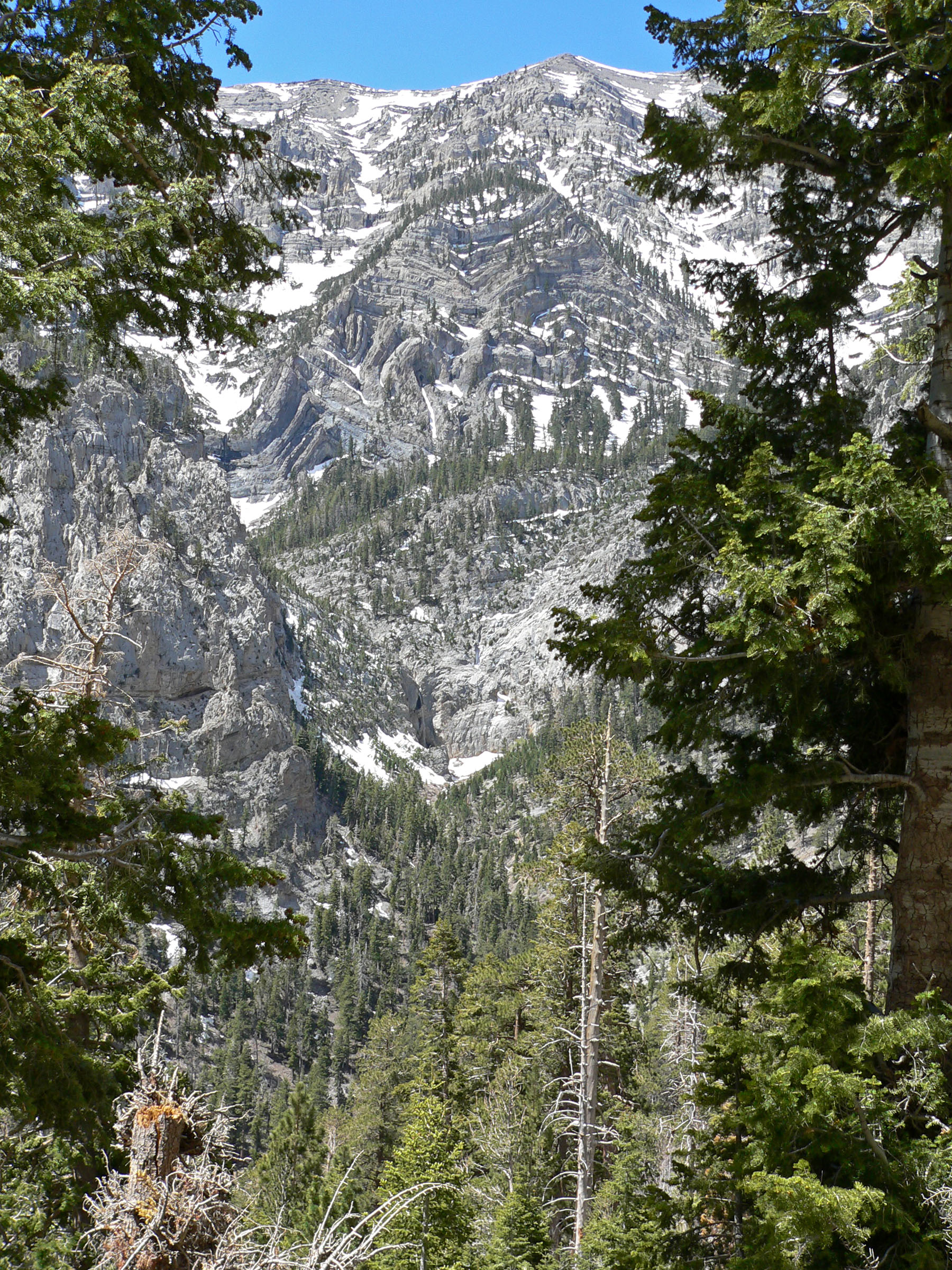 Distant view of Big Falls from Mary Jane Falls trail, Kyle Canyon, Spring Mountains, southern Nevada